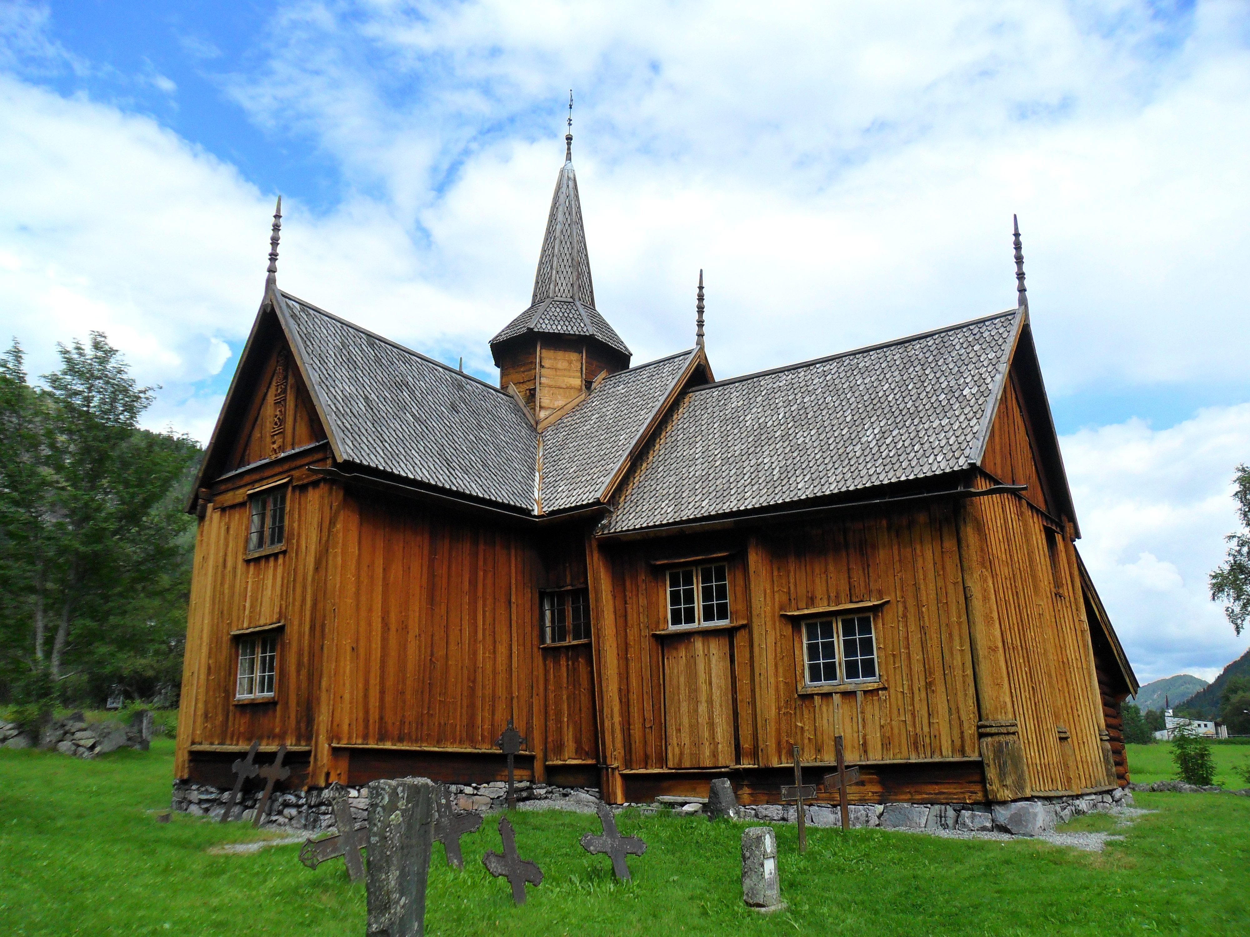 Nore stave church in Nore and Uvdal, Buskerud, Norway